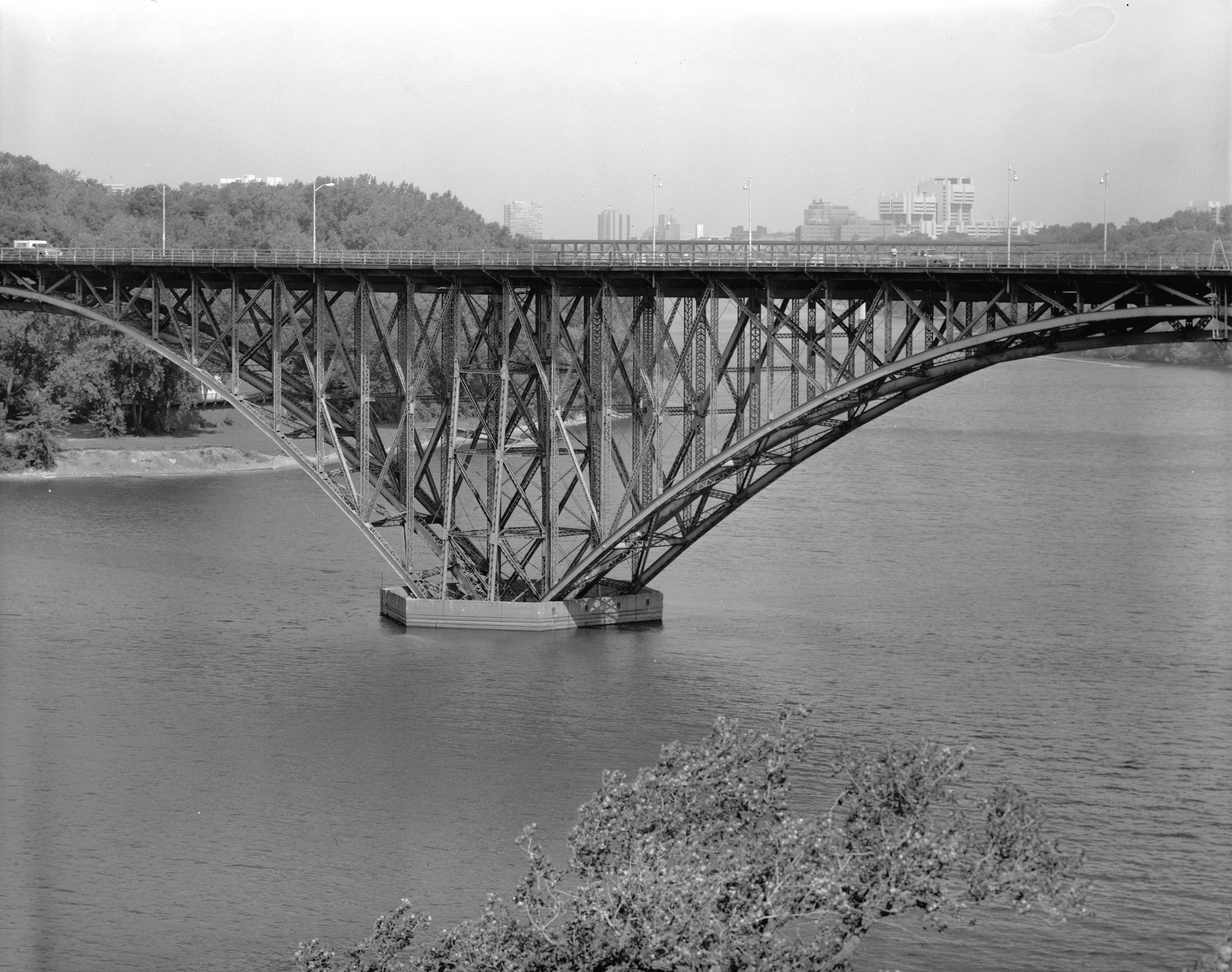 Lake Street-Marshall Avenue Bridge, Spanning Mississippi River, Minneapolis, Hennepin County, MN. Category:Images of Minneapolis, Minnesota